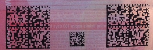 Data Matrix bar codes found on the bottom of a Connecticut Lottery ticket from 2012. The center bar code contains the ticket's serial number only, whereas the two larger bar codes contain the serial number, game type, and list of numbers played. These larger bar codes are used in the lottery's Replay feature, allowing players to replay numbers without the use of a playslip. The Connecticut Lottery, as with a handful of other US lotteries, uses the Scientific Games WAVE terminal to generate its tickets.